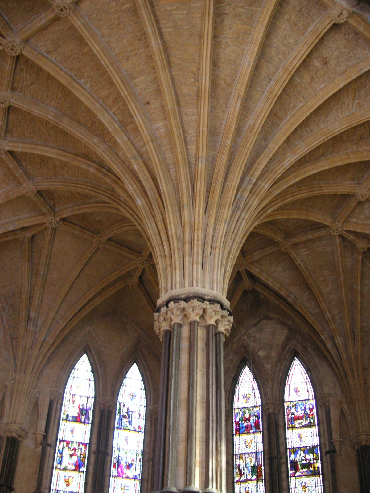 Chapter House vault in Lincoln Cathedral, England